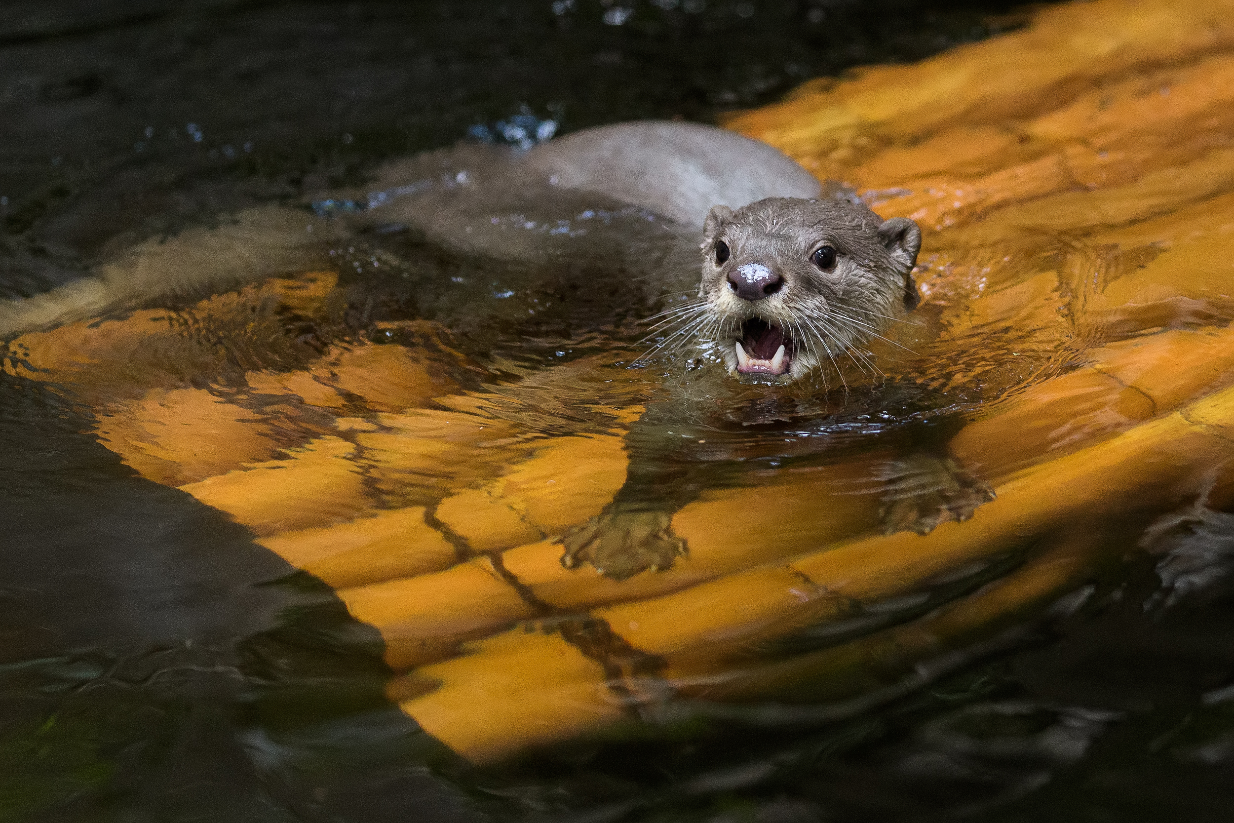 smooth-coated otter, Prague Zoo, bamboo raft - enrichment